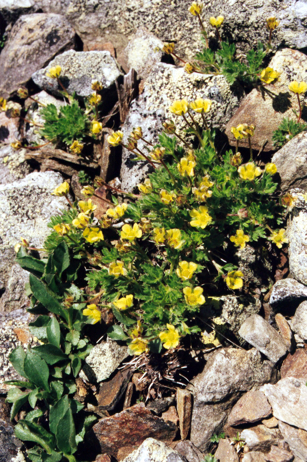 A photo of Potentilla robbinsiana (Robbins' Cinquefoil) taken by the U.S.D.A. Forest Service (date unknown). This plant was once endangered but a successful awareness campaign and repopulation effort has taken it off the endangered list.